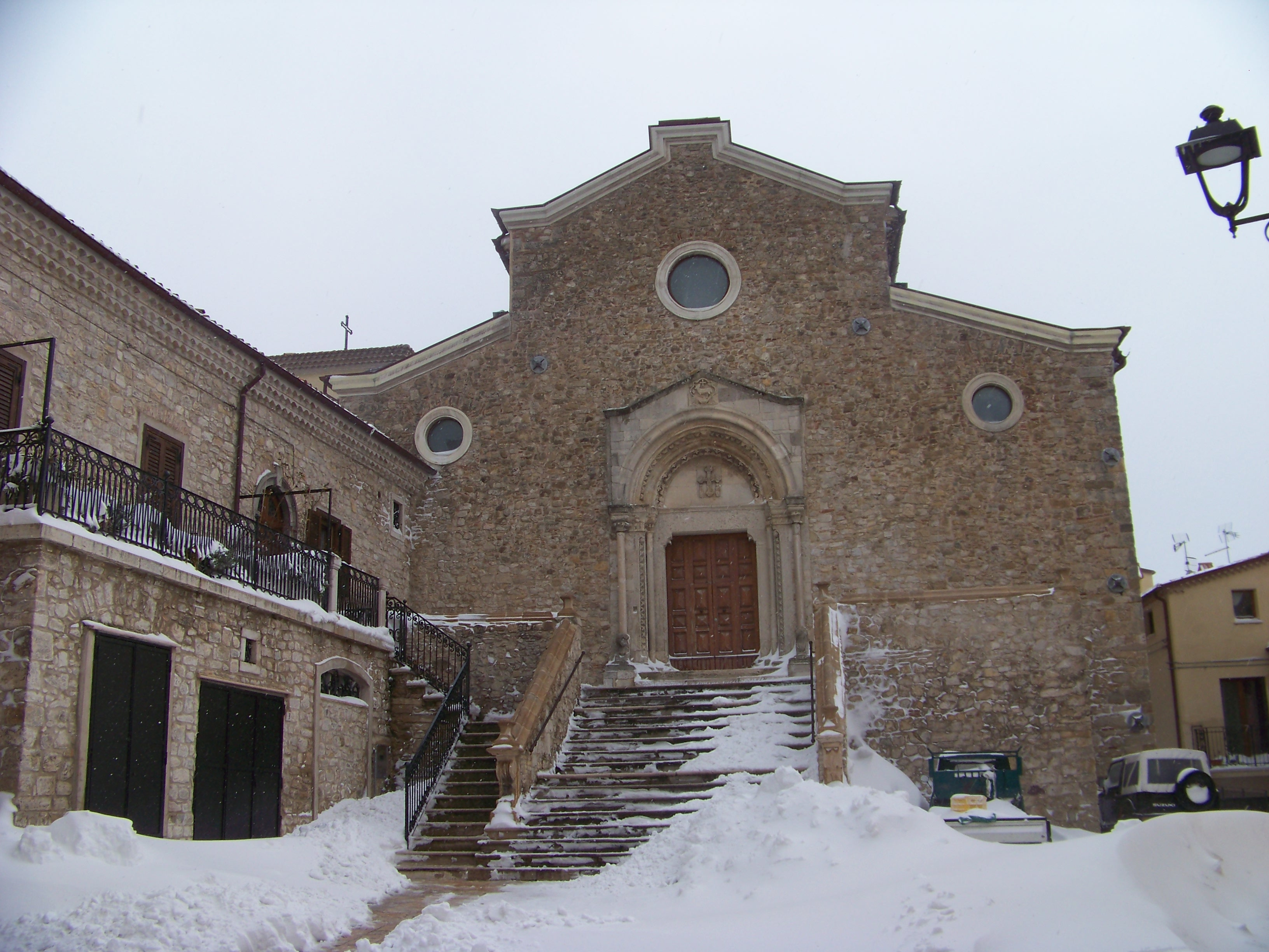 Church of San Giuliano di Puglia_Campobasso_Italy